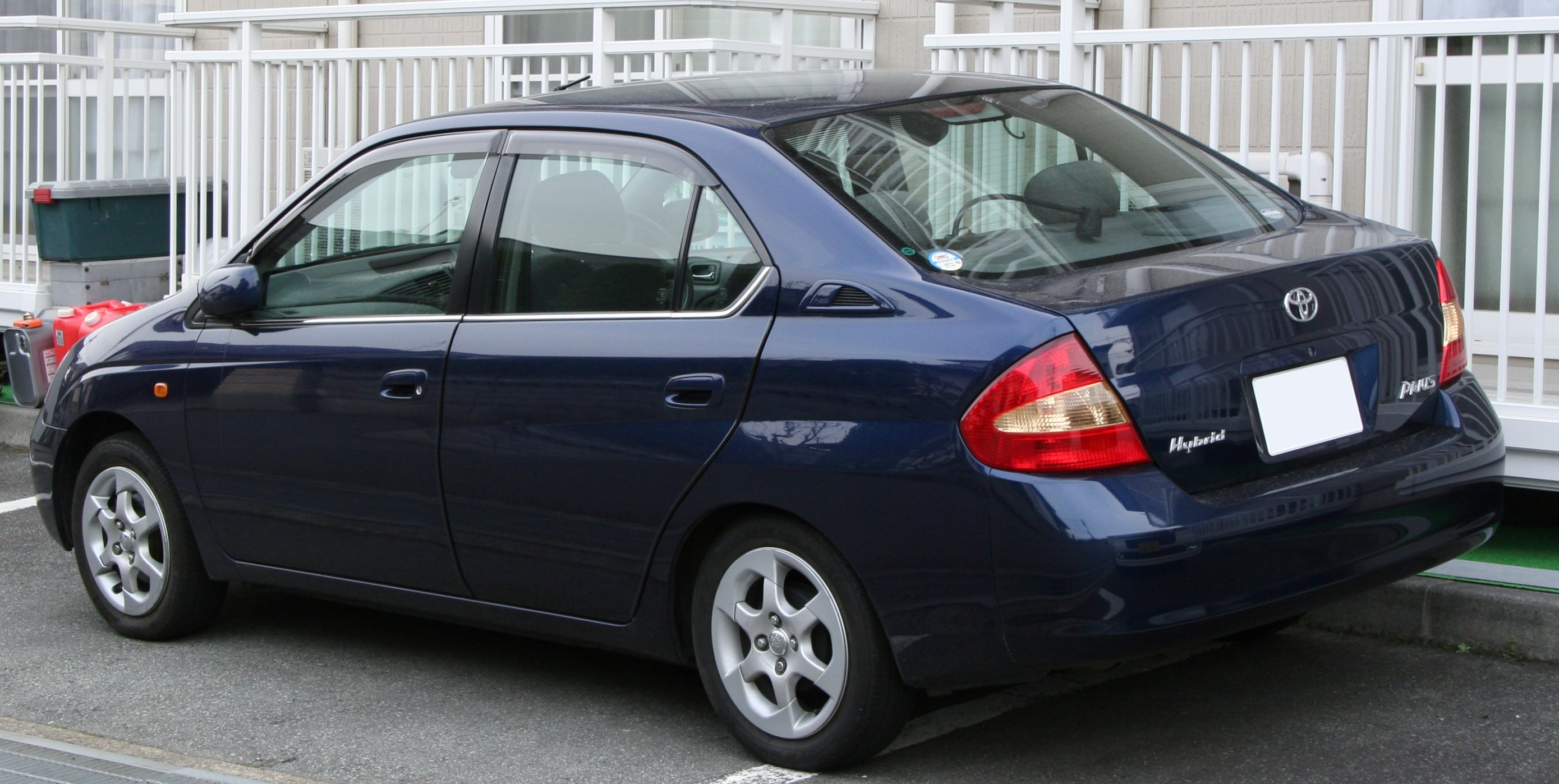 Toyota Prius